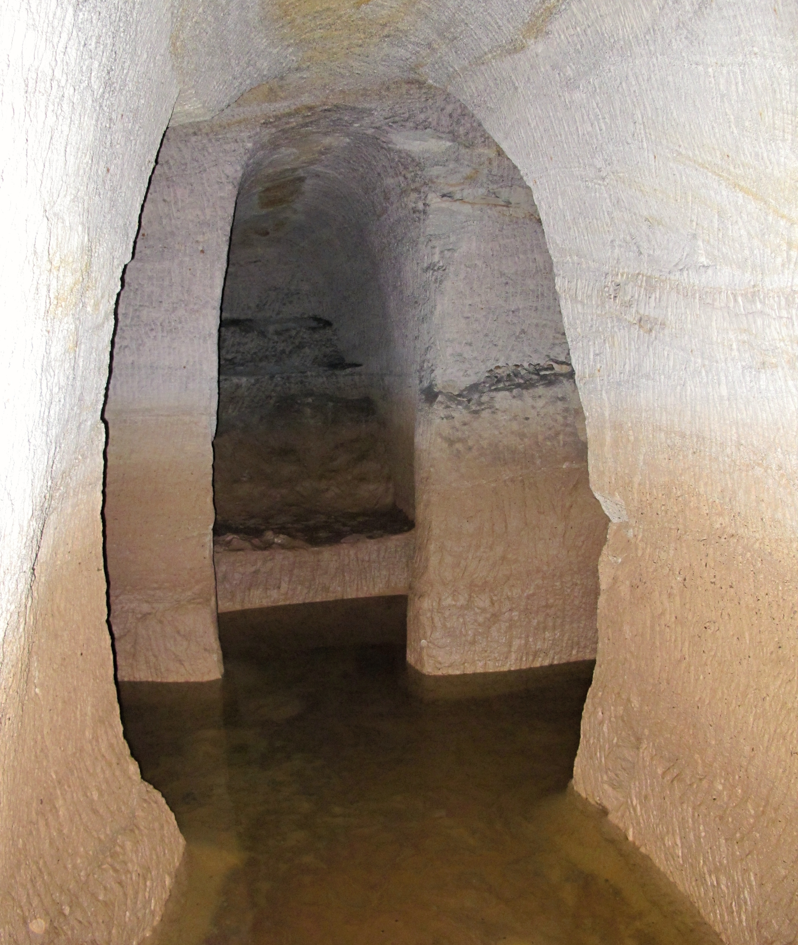 Natural monument Orty near villages Hosín, Borek a Hrdějovice in České Budějovice District